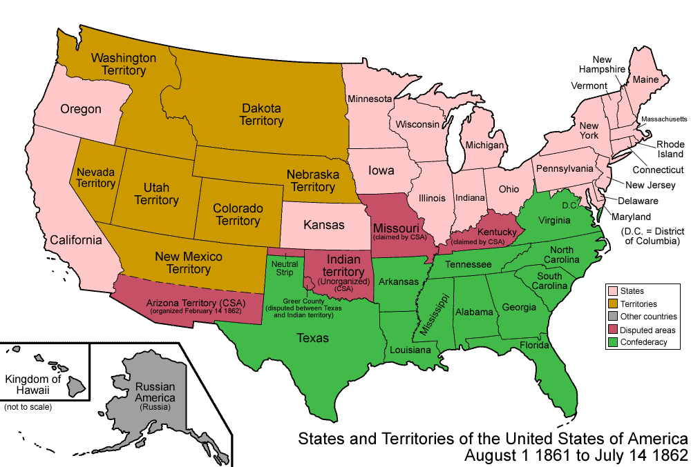 Map of the states and territories of the United States as it was from August 1861 to 1862. On August 1 1861, the Confederacy established the unorganized Arizona Territory, consisting of the southern half of the Union's New Mexico Territory; the Union still claimed the whole territory. On July 14 1862, Nevada Territory gained some land from Utah Territory. Also, on February 14 1862, the CSA's Arizona Territory was formally proclaimed.